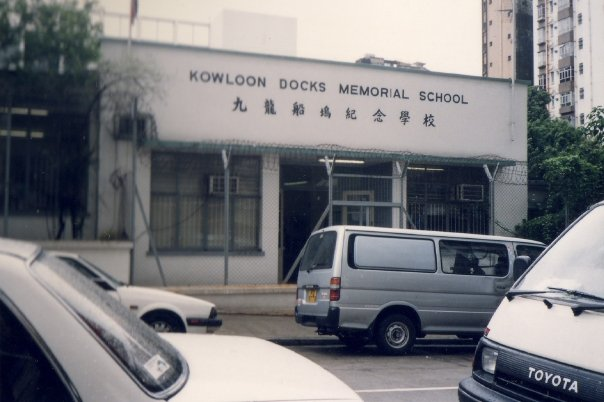 中文（香港）: 九龍船塢紀念學校正門(Front Gate of KDMS)